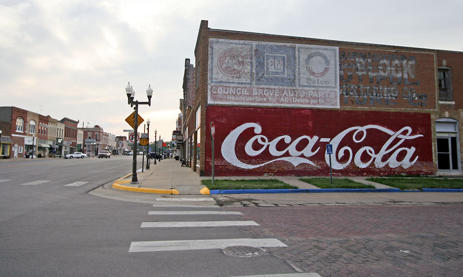 Downtown Council Grove, Kansas in July, 2006. Photograph by Janice Baer. This block is part of the Council Grove Downtown Historic District, a historic district that is listed on the National Register of Historic Places.